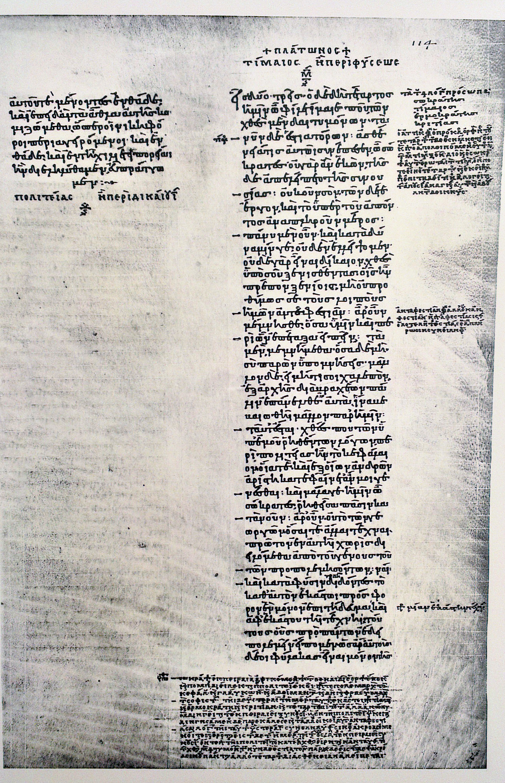 Page of the Codex Parisinus graecus 1807. Dialogue Timaios.